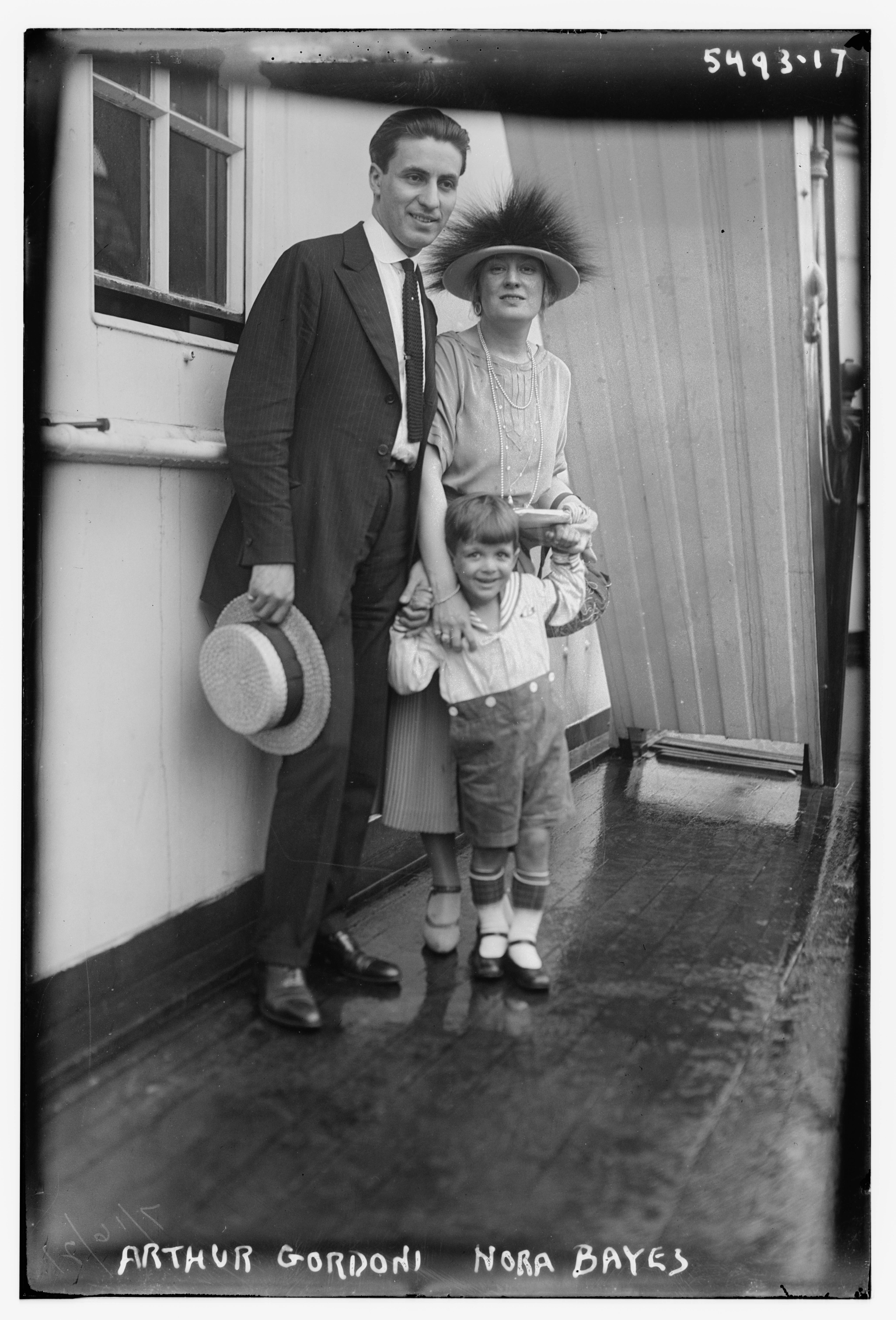 Title: Arthur Gordoni, Nora Bayes [and child] Abstract/medium: 1 negative : glass ; 5 x 7 in. or smaller.